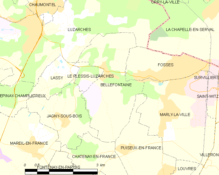 Map of French municipality Bellefontaine